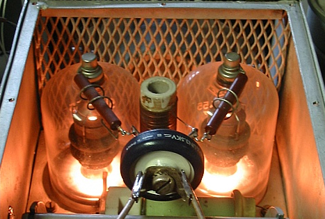 Glowing cathodes in two transmitting vacuum tubes in an amateur radio transmitter